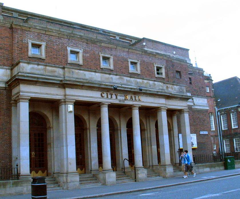 City Hall, Newcastle upon Tyne